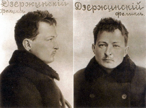 Feliks Dzierżyński, 1902, "Okhrana" files